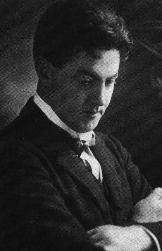 The image of Irish composer Sir Herbert Hamilton Harty (1879-1941), n.d.